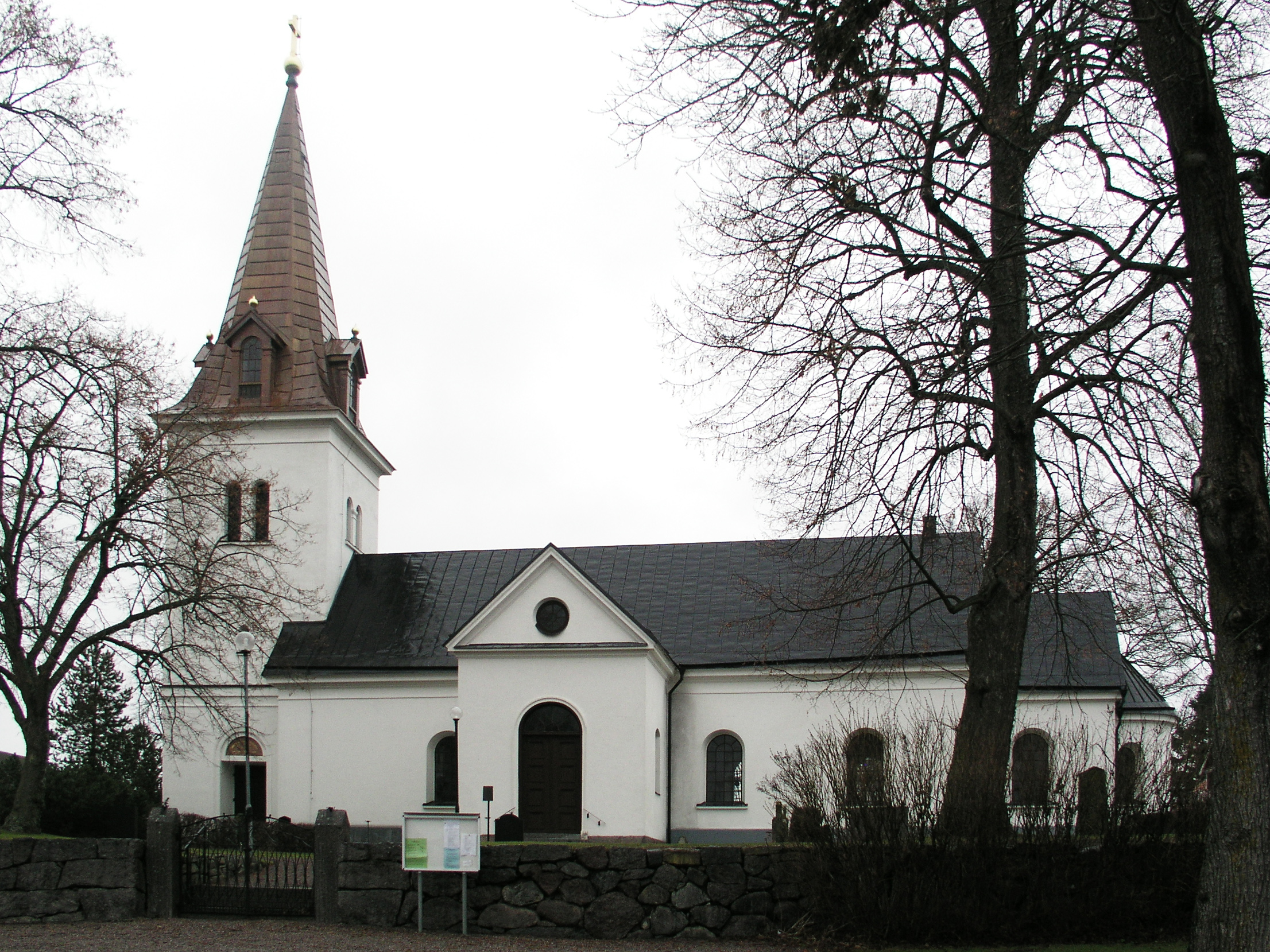 Östra Hargs kyrka, Diocese of Linköping, Linköpings kommun. The picture was taken the 4th of December 2005 by Håkan Svensson (Xauxa).